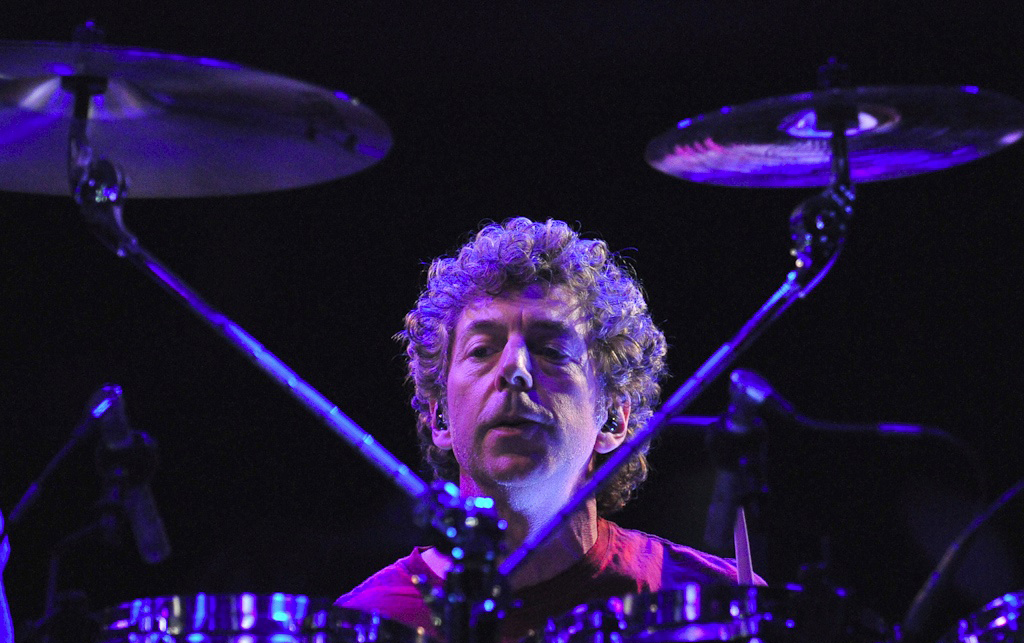 PSP - Phillips Saisse Palladino Simon Phillips: drums & percussions Pino Palladino: bass Philippe Saisse: keyboards Crossroads Live Club, Roma 22.11.2009